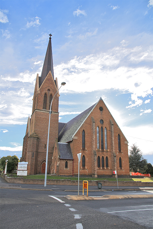 Photos of buildings of interest located in Orange, NSW, Australia Holy Trinity Anglican Church, Byng Street, Orange, NSW, Australia